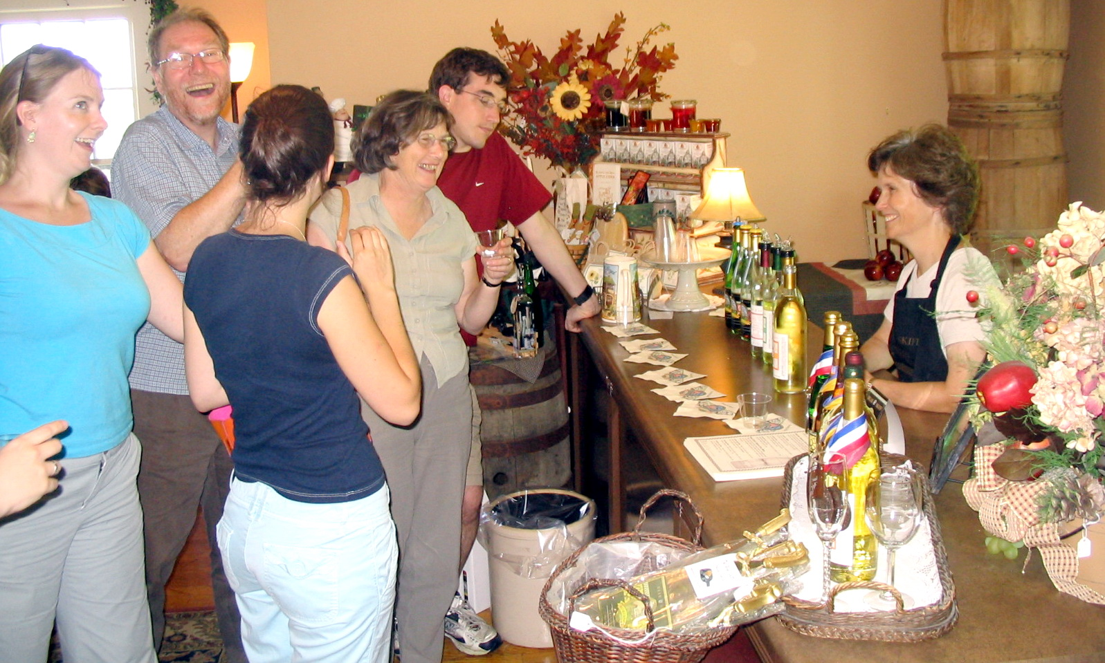 I preferred the second variety.